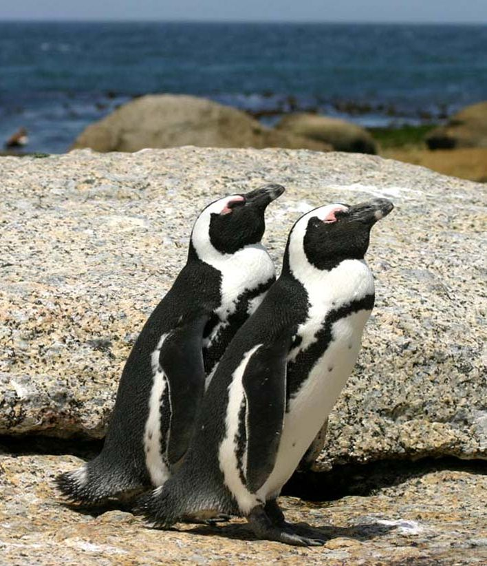 African penguins. Photograph taken on Boulders Beach in South Africa using a Canon EOS300D and Canon 300mm Image Stabilizer EF lens with Skylight 1A filter.